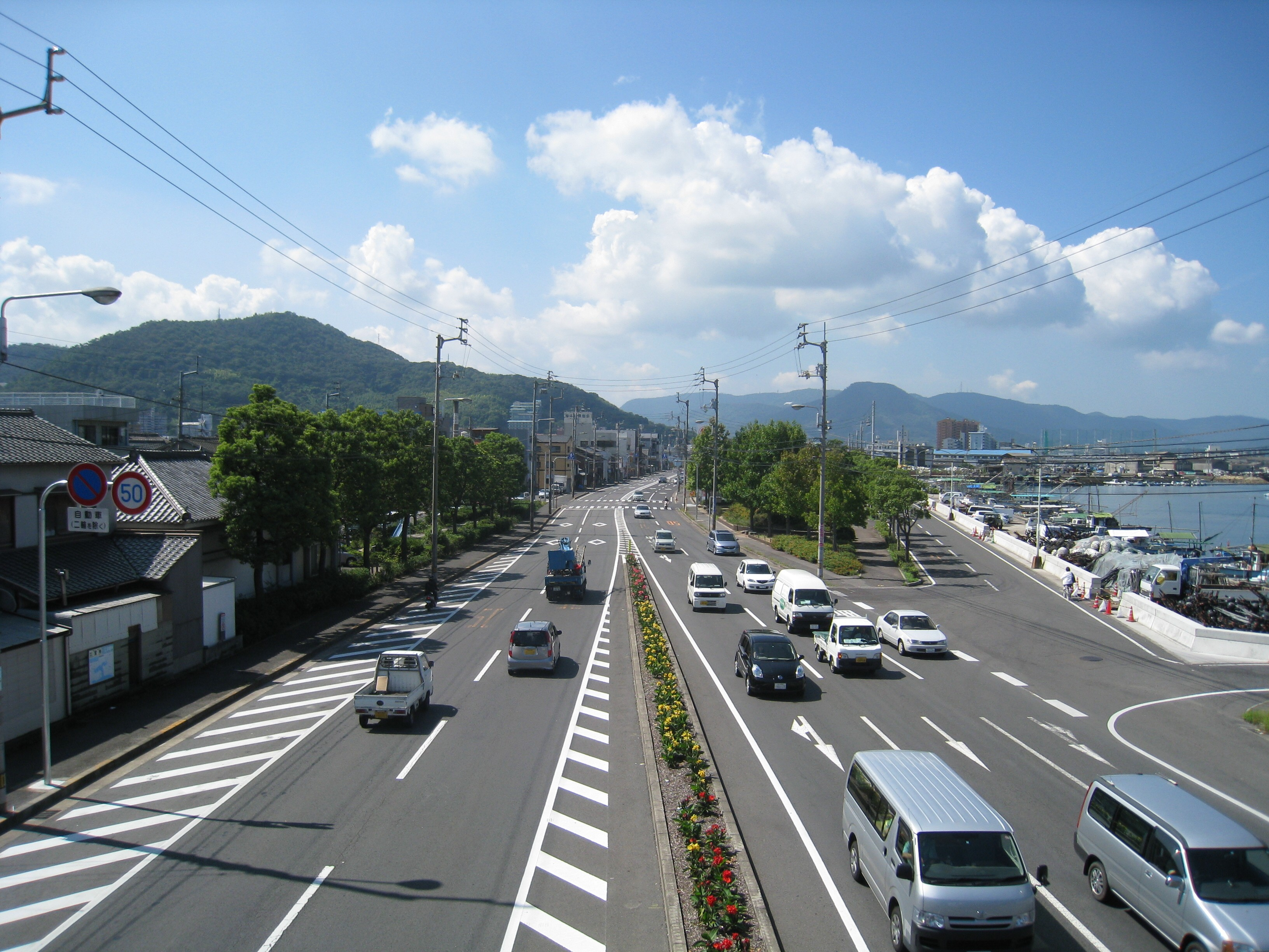 Sanuki-hamakaido in Hamano-cho view west